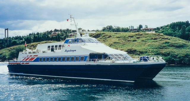 MS Sognekongen in Alverstraumen